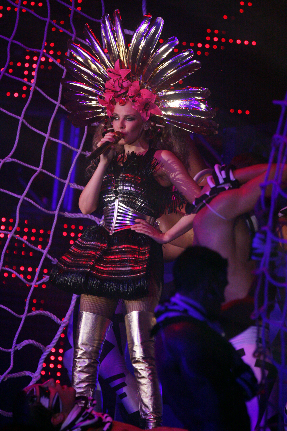 Kylie Minogue appearing and performing at the 2012 Sydney Gay and Lesbian Mardi Gras and After Party.